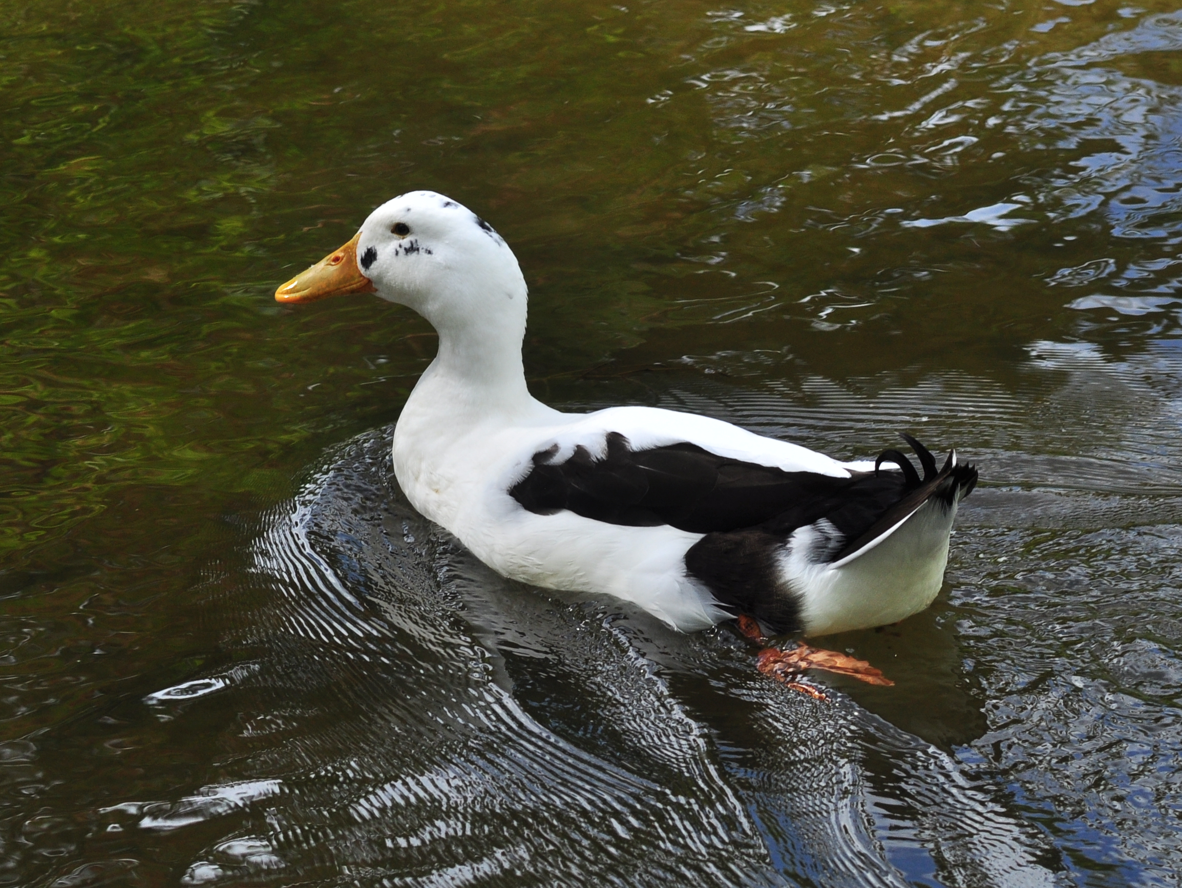 Ancona duck (a domesticated duck), Wright Park, Tacoma, Washington, U.S.